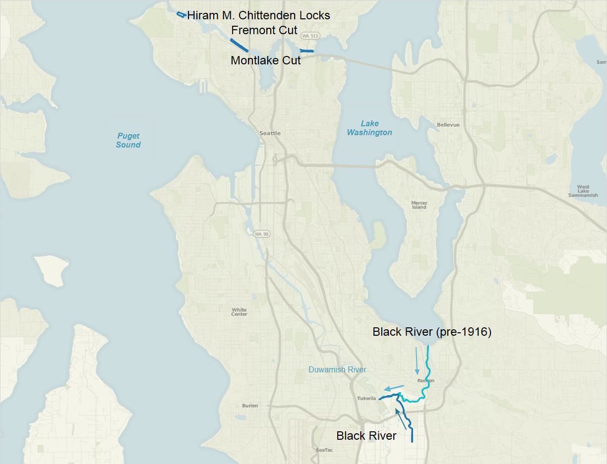 Map of Lake Washington Ship Canal and Black River, Washington, showing pre-1916 and 2013 river course. Created with Tableau Software.